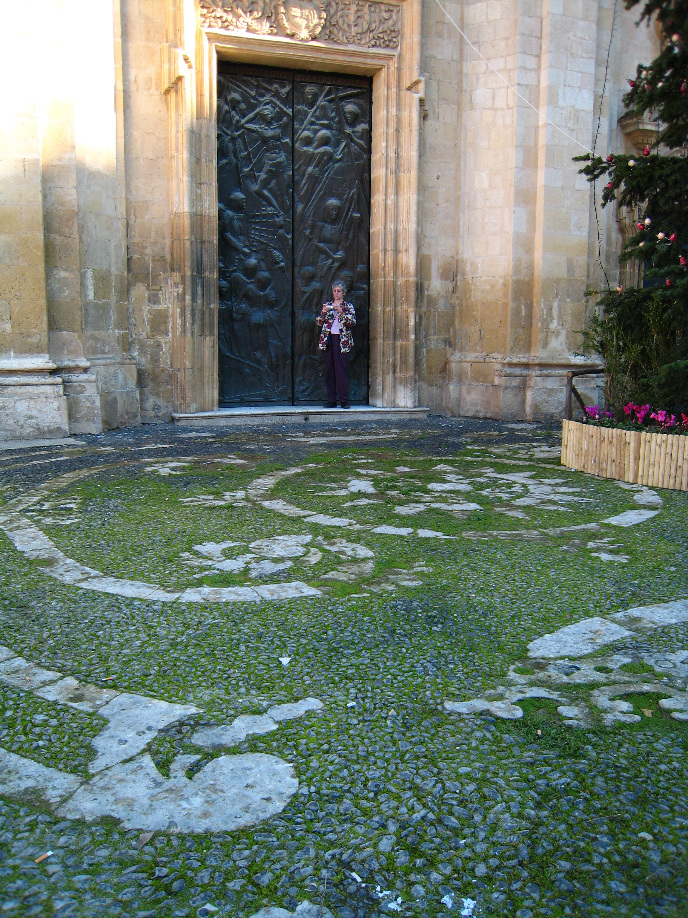 Melilli cathedral